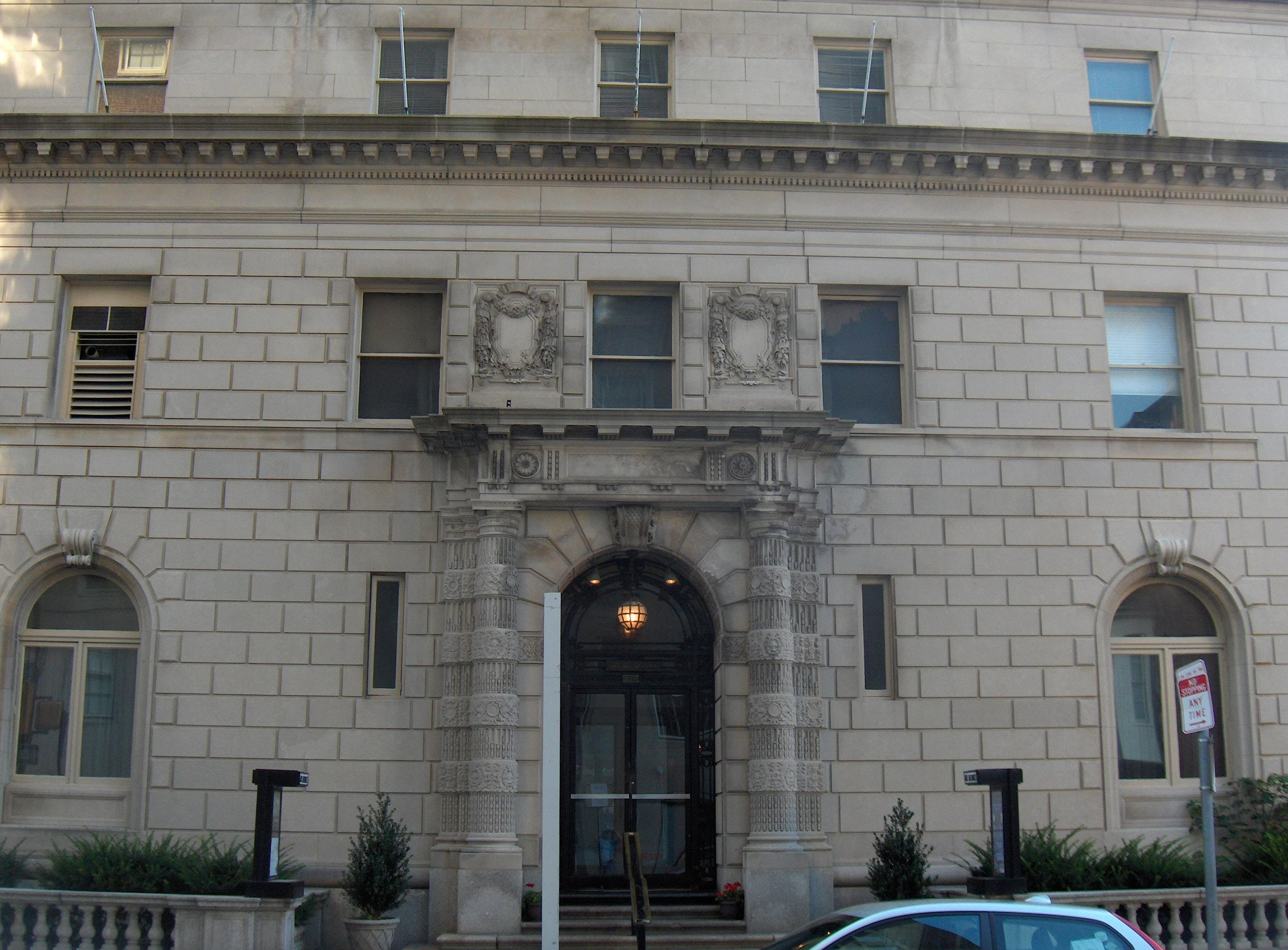 Philadelphia Art Alliance, 251 South 18th Street, Philadelphia, Pennsylvania 19103-6168. Wetherill mansion, designed and constructed in 1906 by Charles Klauder.